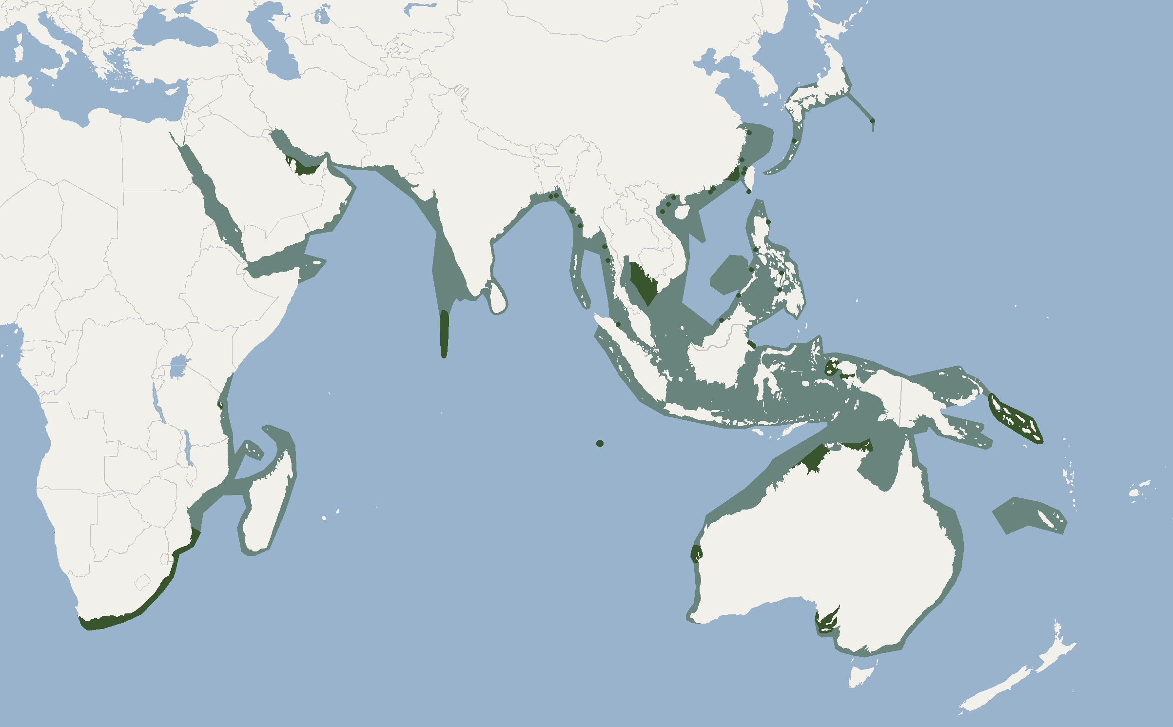 According to Perrin & Al., 2009